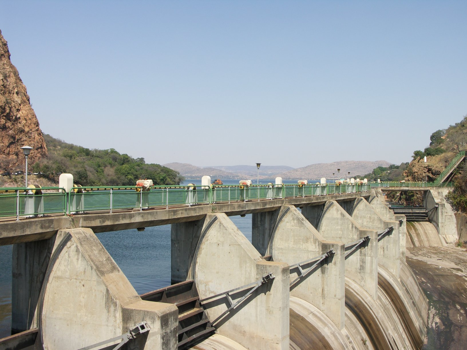 Hartebeespoort Dam, South Africa